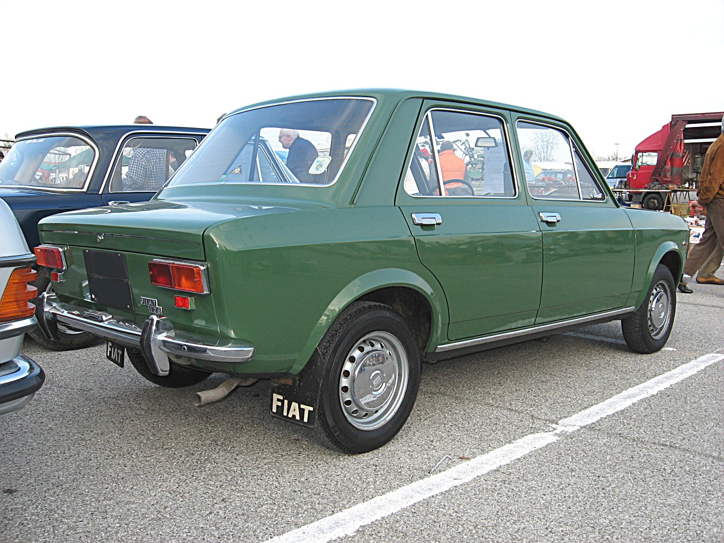 Subject:Fiat 128 Author:Luc106 Date:March 15th, 2007 Event:Old Timer Show 2008 Place/Country: Forlì, Italy I release all rights in the public domain.